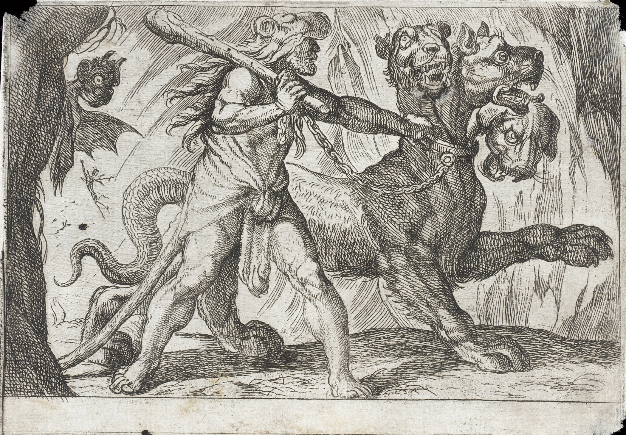 Italy, 1608 Series: The Labors of Hercules, pl. 11 Prints; etchings Etching Los Angeles County Fund (65.37.17) Prints and Drawings